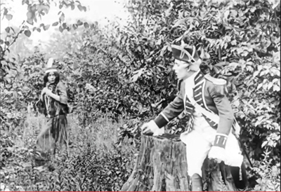 Gene Gauntier, the Indian girl in love with Major Gladwynn, Jack J. Clark.